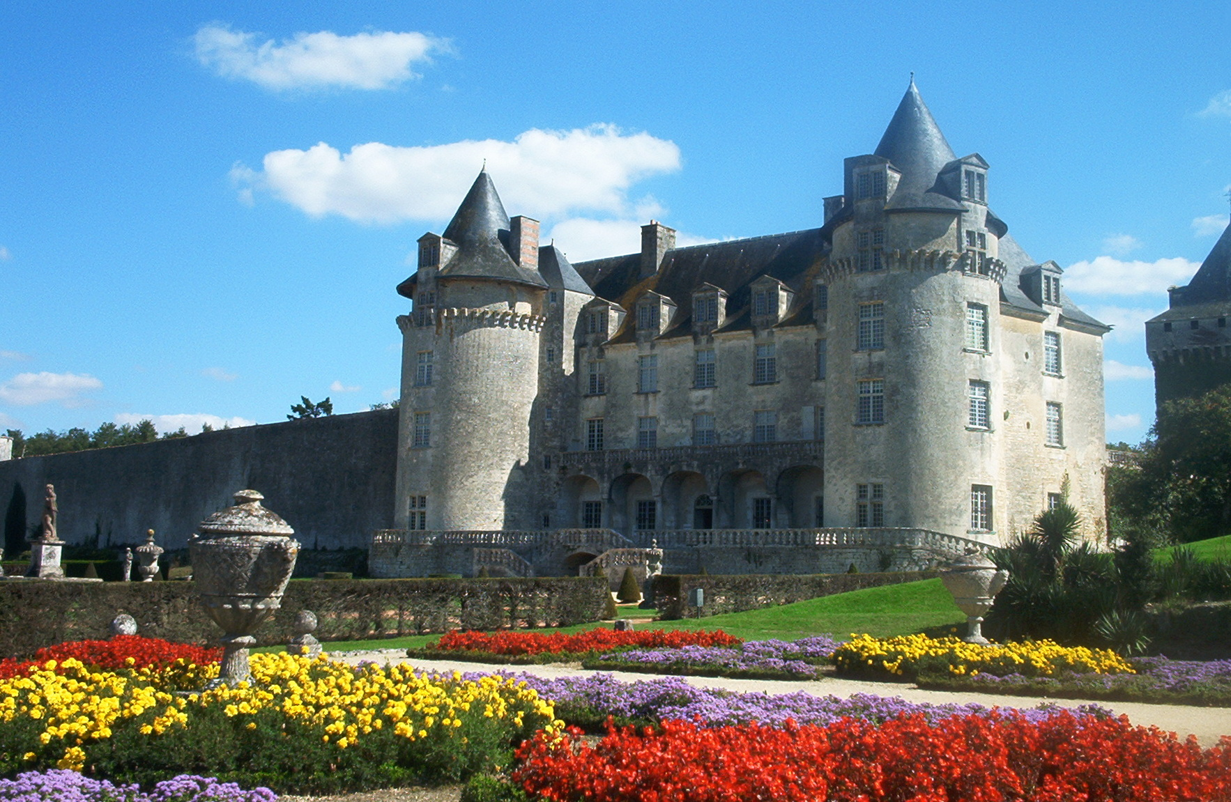 Photographer: User:Ballista